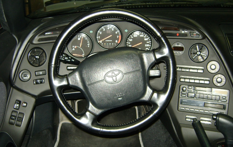 Toyota Supra MKIV (JZA80) cockpit